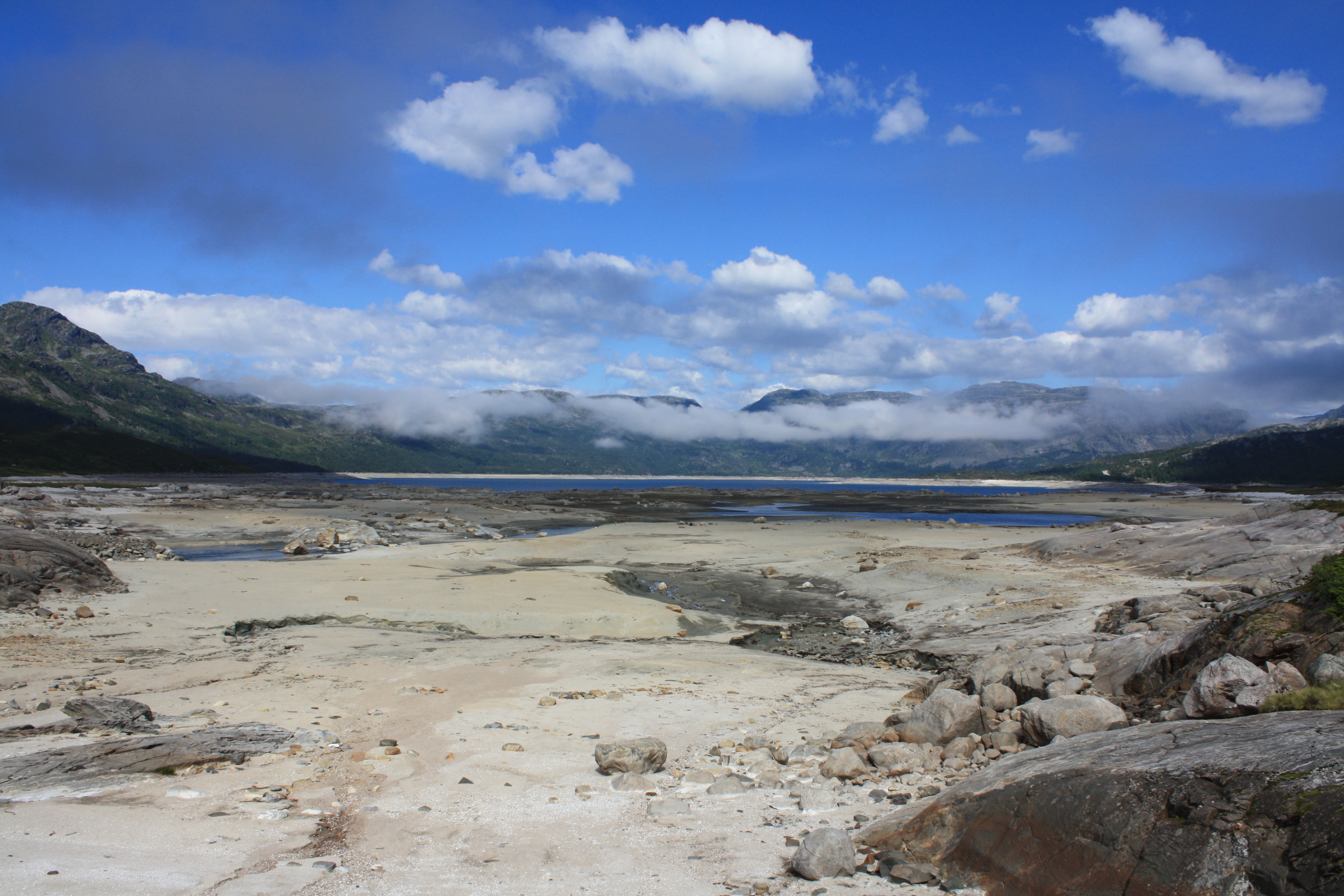 Sandsavatnet, part of Ulla-Førre